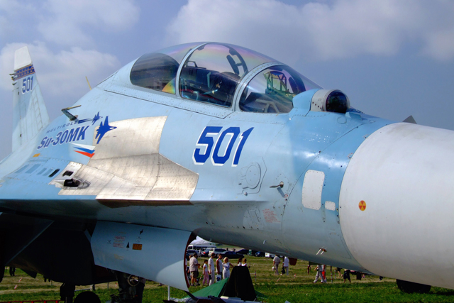 MAKS Airshow-2007. Su-30MK